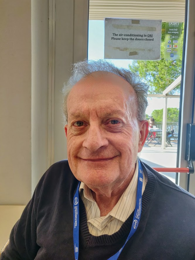 Bruce McKellar at the Gender gap in science conference in Trieste. 7 November 2019.